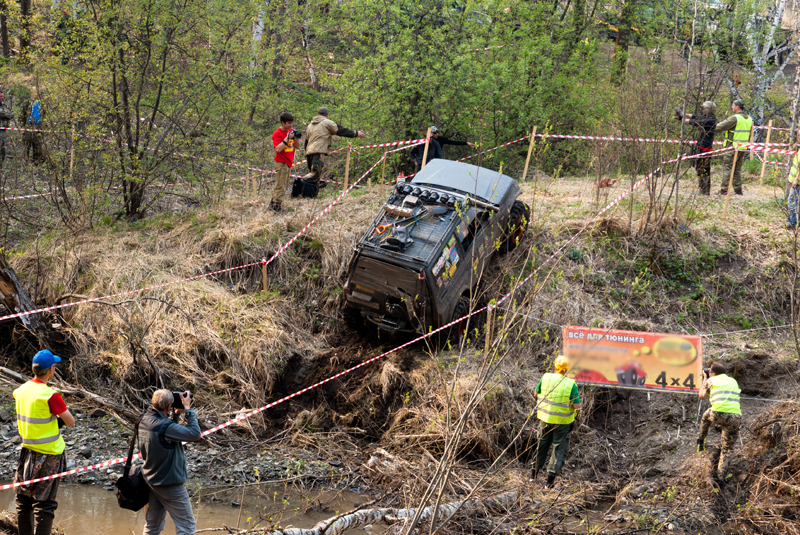 Trial with a steep mud hill on the track at X X Siberian auto moto festival.jpg